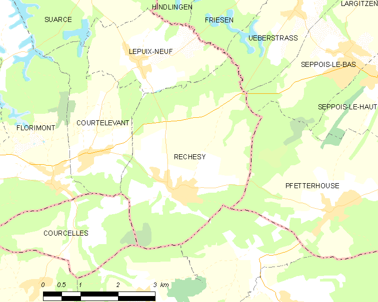 Map of French municipality Réchésy